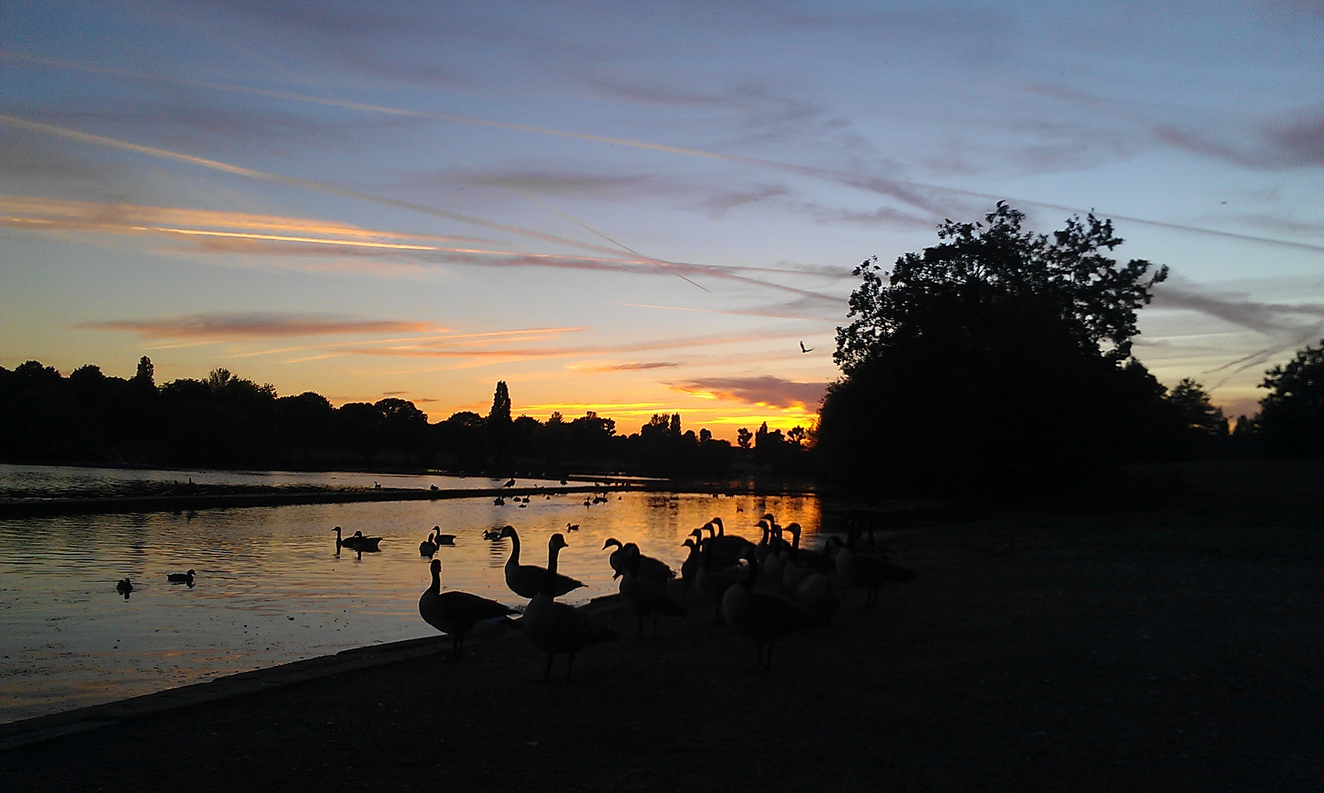 Danson Lake, located at Danson Park. Autumn 2012.